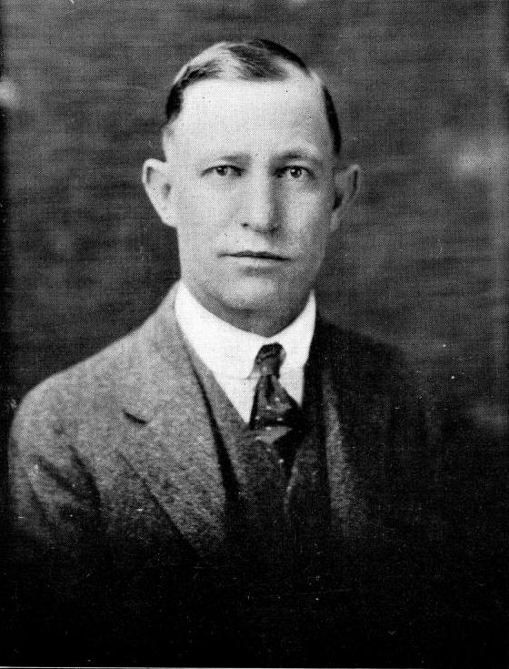 A. L. Kirkpatrick